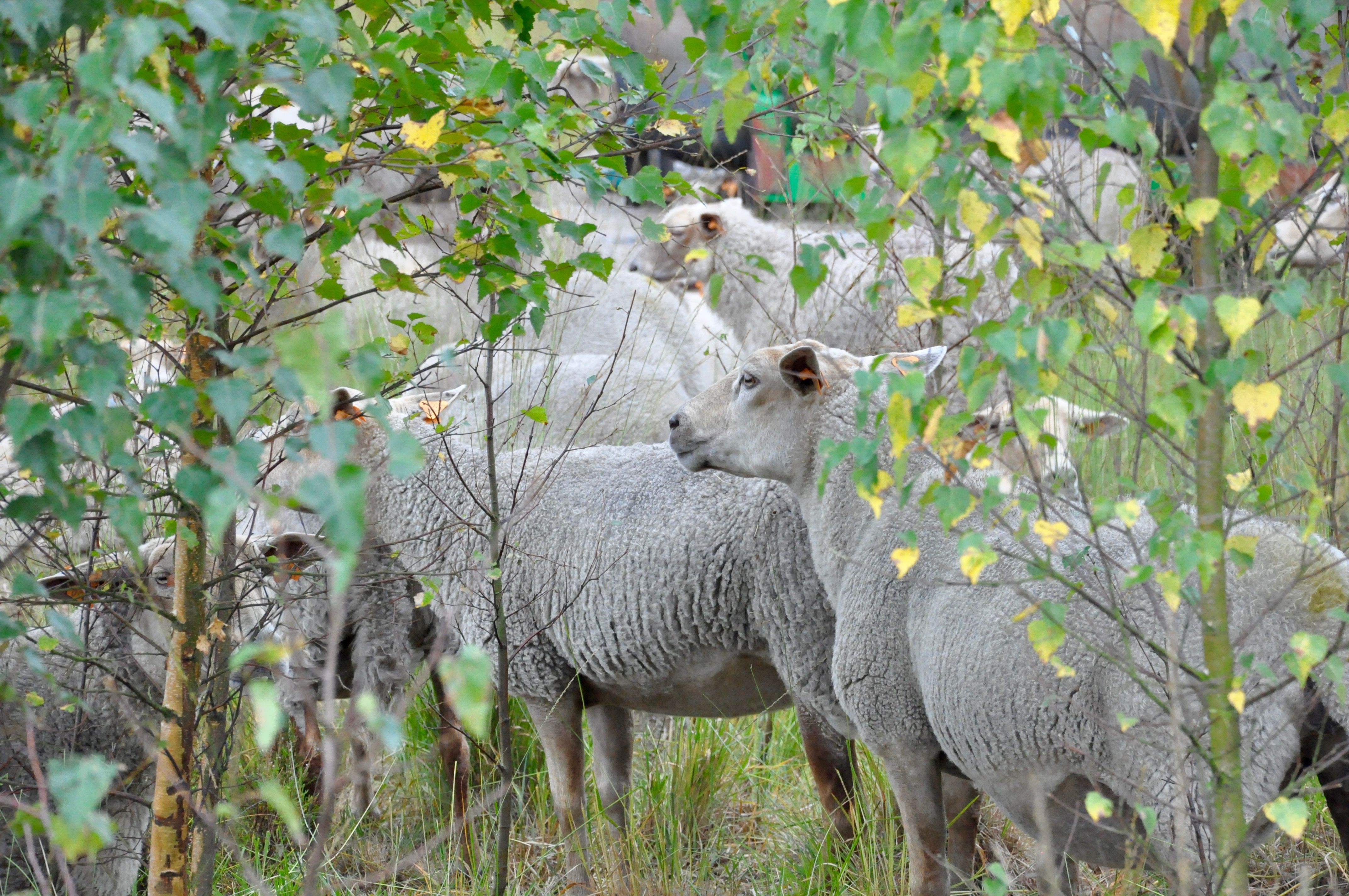 Marked and numbered sheep within a fenced area of the Kalmthout Heath, on 11 September 2016. The plastic fences seemed to allow frequent relocation. The sheep surrounded an old small silo trailer, which was presumably allowing the sheep to drink water from it.